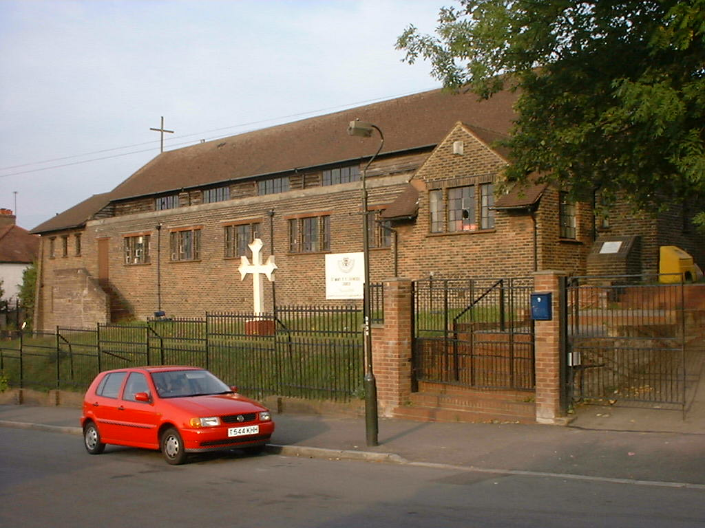 Coptic Orthodox Church of SS Mary and Shenouda in Rickman Hill, Coulsdon, Surrey, seen from the west. Church's website